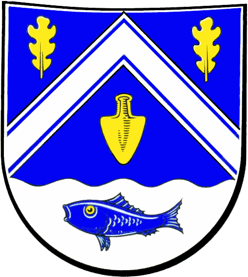 Coat of arms of Heikendorf Blasonierung: In Blau ein oben von zwei goldenen Eichenblättern begleiteter silberner Sparren, innerhalb dessen ein goldenes Pflugeisen; darunter in silbernem, durch Wellenschnitt abgeteiltem Schildfuß ein blauer Fisch.